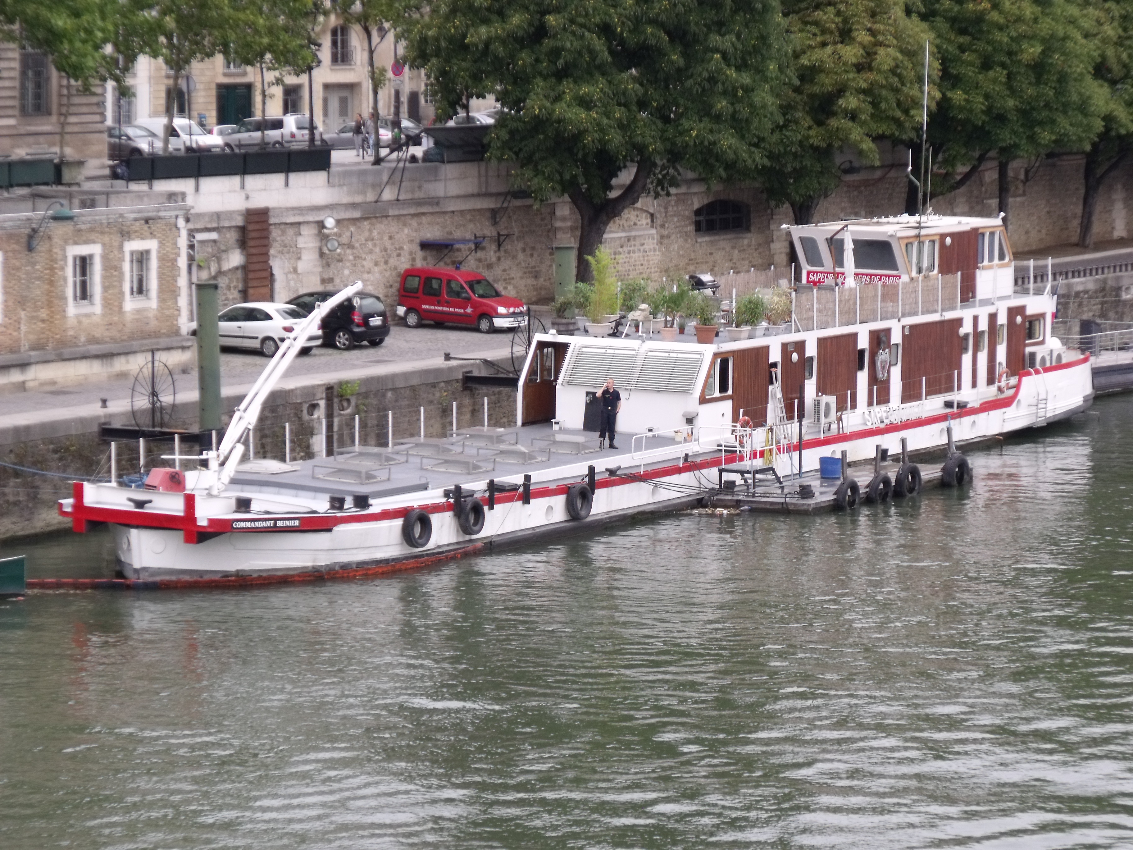 This boat is used like a Fire Station by Paris Firemen diving unit on the river Seine.